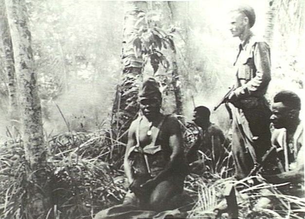 Australian and New Guinea personnel from 'A' Company, 2nd New Guinea Infantry Battalion during the Aitape-Wewak campaign, around Gisanamba.